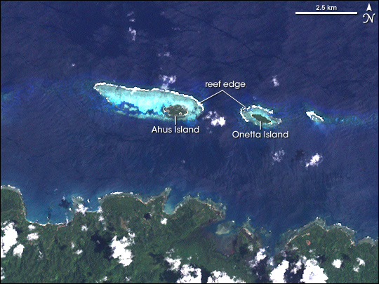 Coral reefs around Ahus and Onetta Islands, Manus Province, Papua New Guinea. Coral reefs stand out from their surroundings because of their shallower waters, shown in aquamarine. Exposed or shallow reefs at the reef edges tend to cause ocean waves to break, showing white foam as the cresting waves appear.